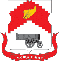 Meshchansky (rayon of Moscow), coat of arms